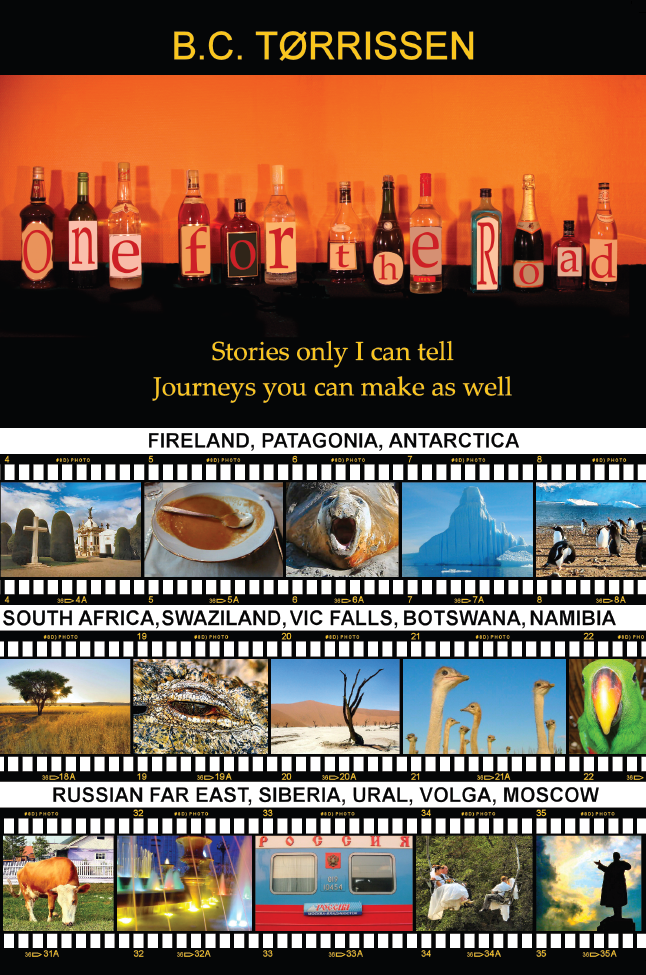 The cover of the book "One for the Road". The cover, as well as the book itself, has been released to the public domain under a Creative Commons license for free use and distribution. See further information at